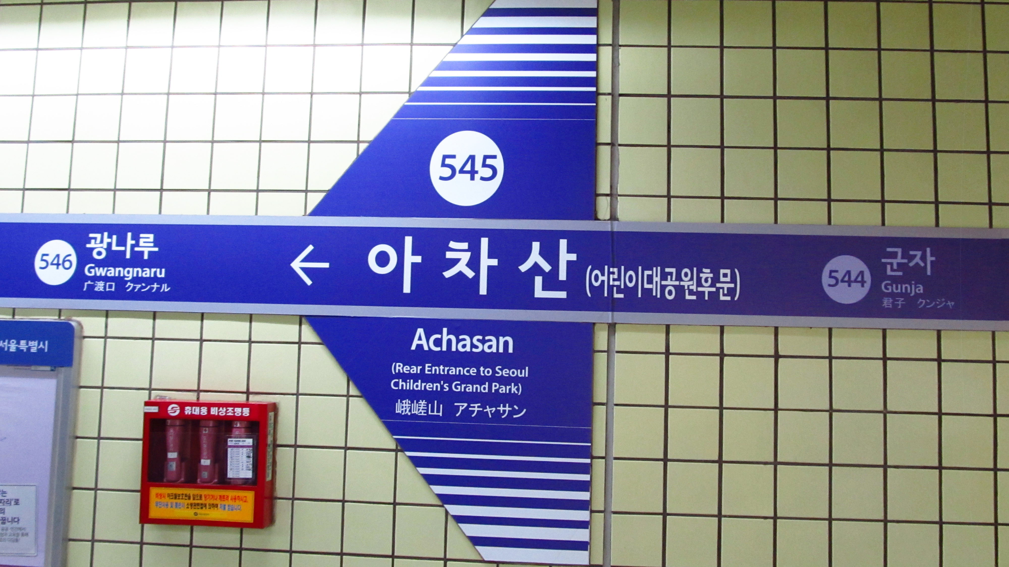 A sign of Achasan Station on Seoul Subway Line 5